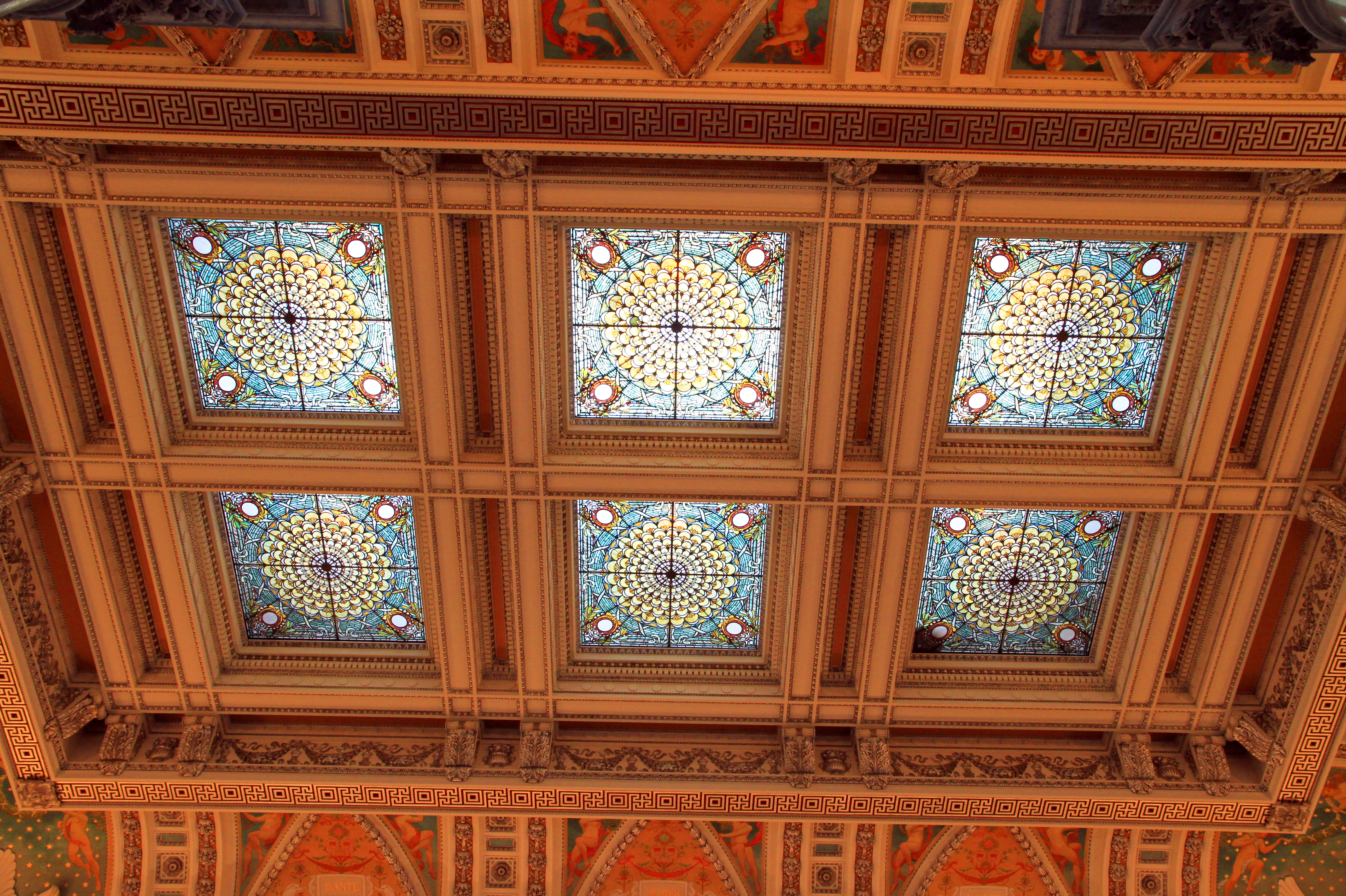 Library of Congress